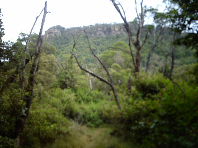 East cliff of Mt Keira summit plateau seen from Ring Track where it meets Mt Keira Road